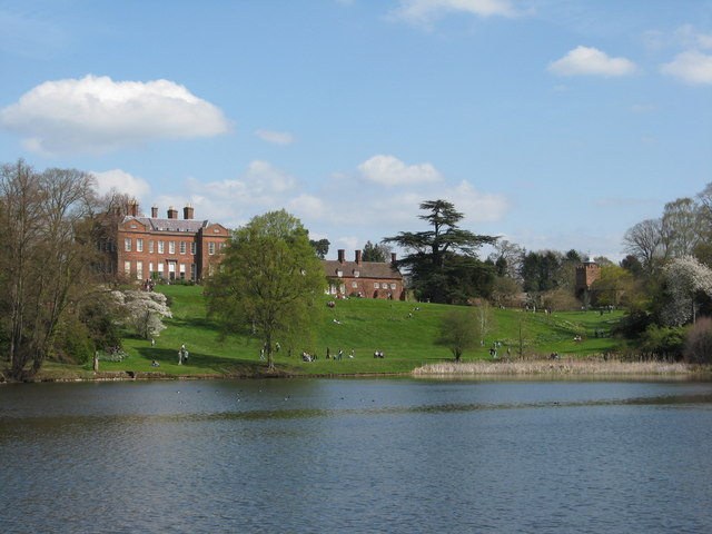 Dudmaston Estate This is the view across the Big Pool towards the buildings making up Dudmaston Hall. On this day at Easter time, the park was full of children racing about on the easter egg trail, and adults lying on the grass having a few minutes peace.